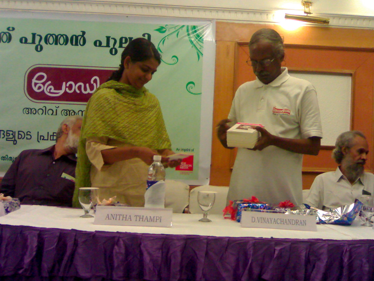 Malayalam Poets Anita Thampi an D. Vinayachandran at a Book launch function of New Horizon Media at Trivandrum (18 June 2008). Camera phone upload powered by ShoZu